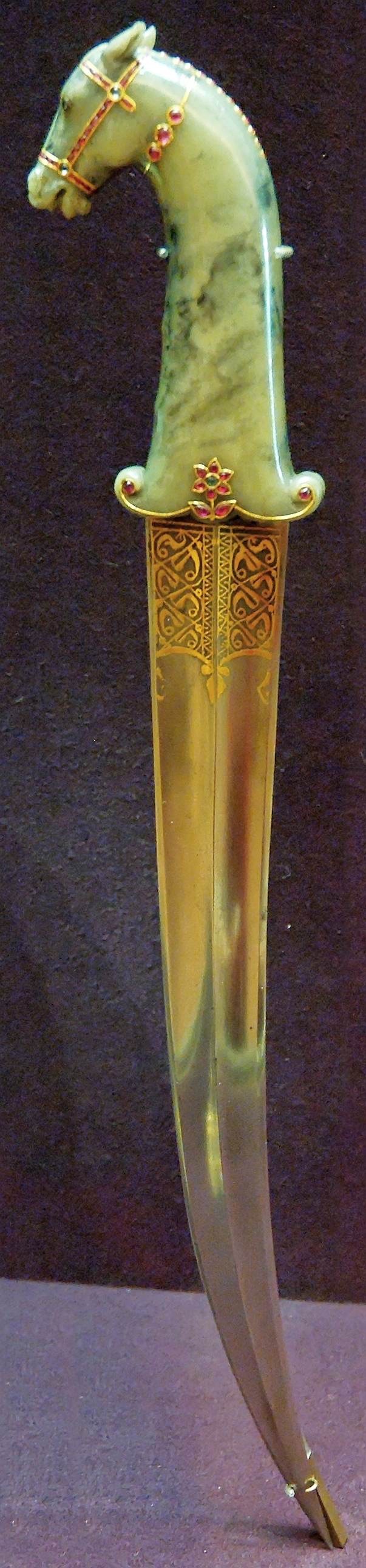 Jambiya agger with horse head pommel. India, Mughal dynasty.